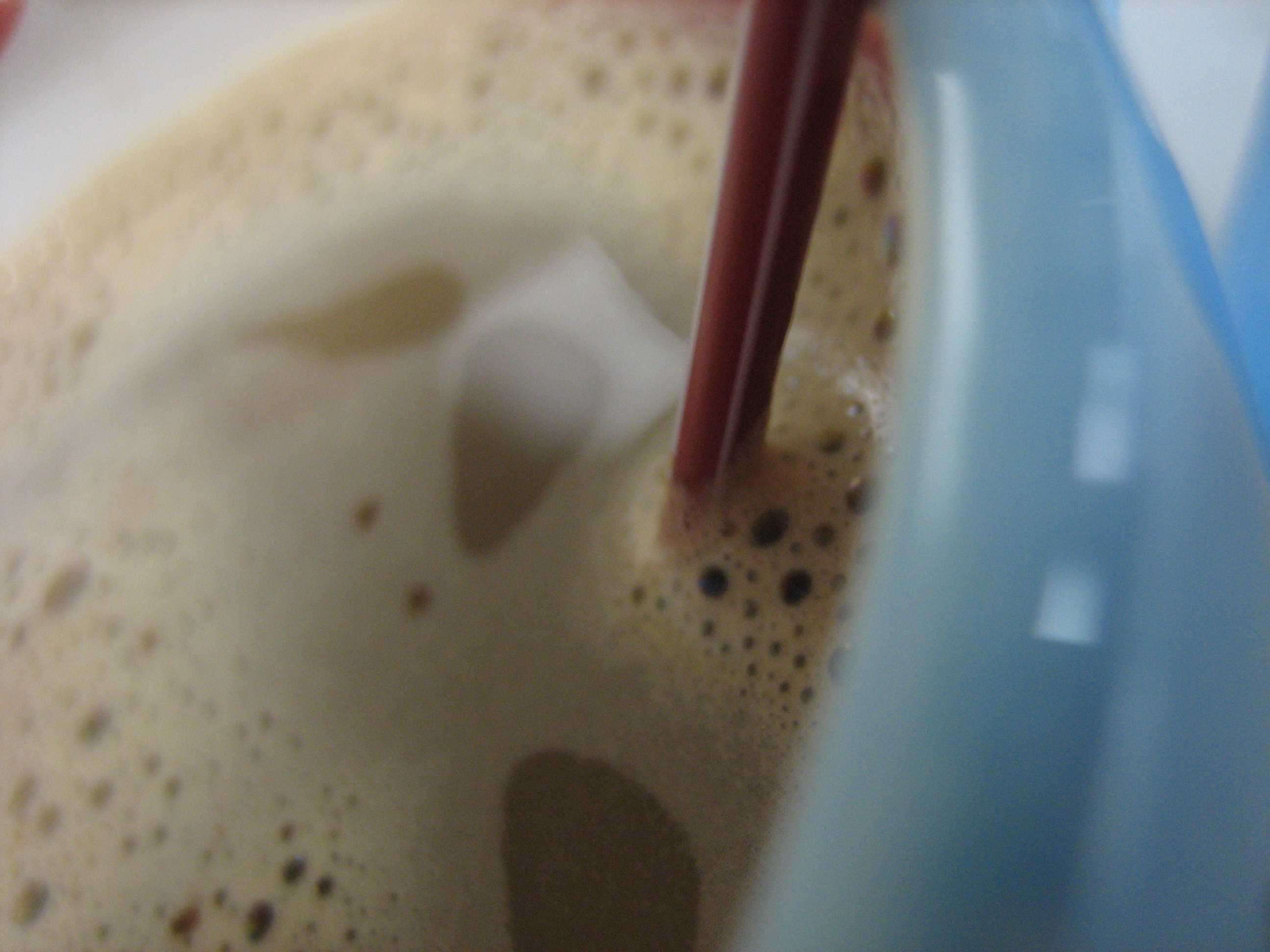 Cafe MochaMorning Bubbles